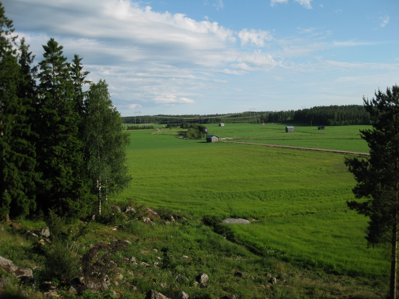 A view of the battlefield of Oravais, Finland.